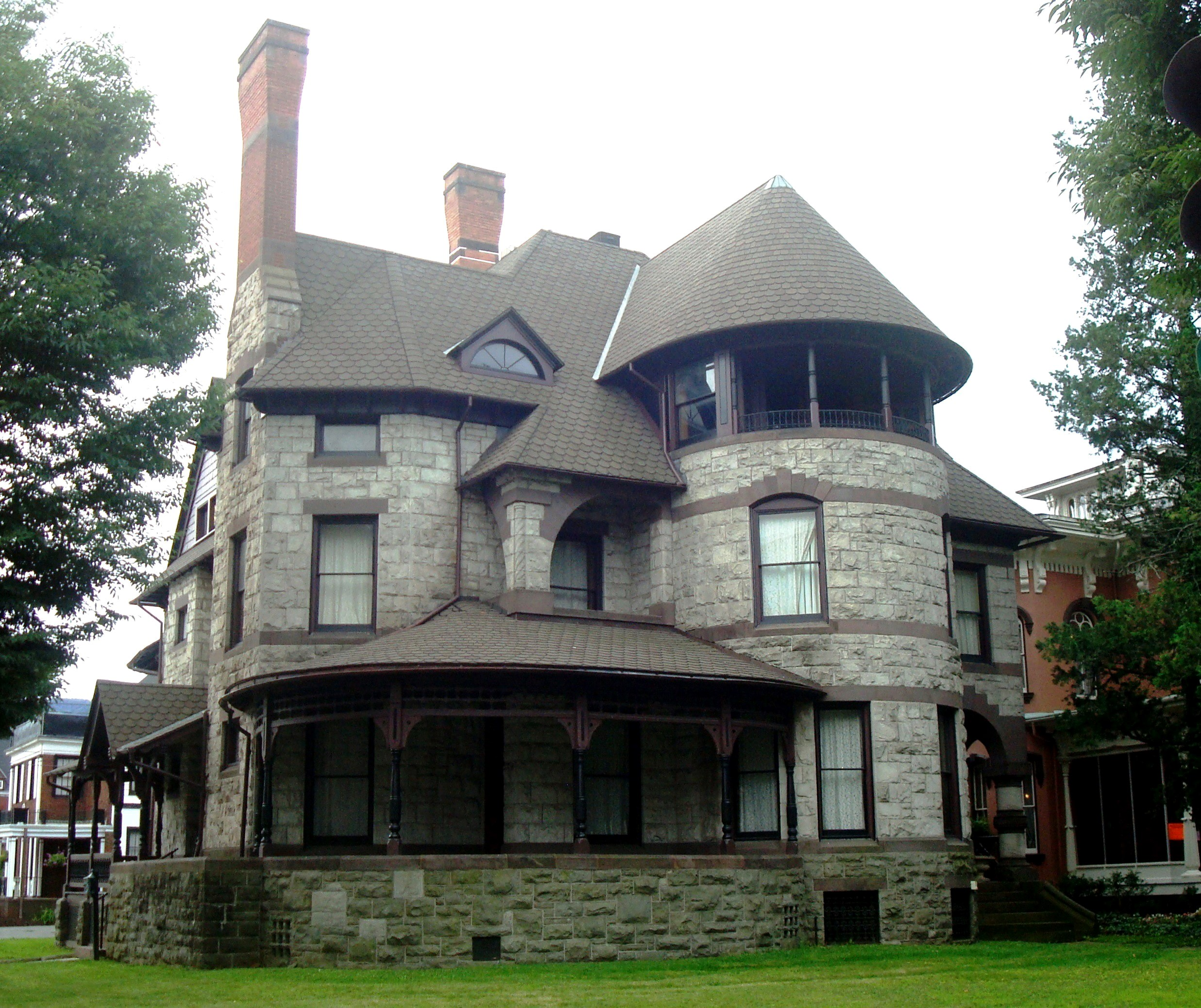 The Hermance House at the corner of West 4th and Elmira Streets in the Millionaire's Row Historic District of Williamsport, Pennsylvania.